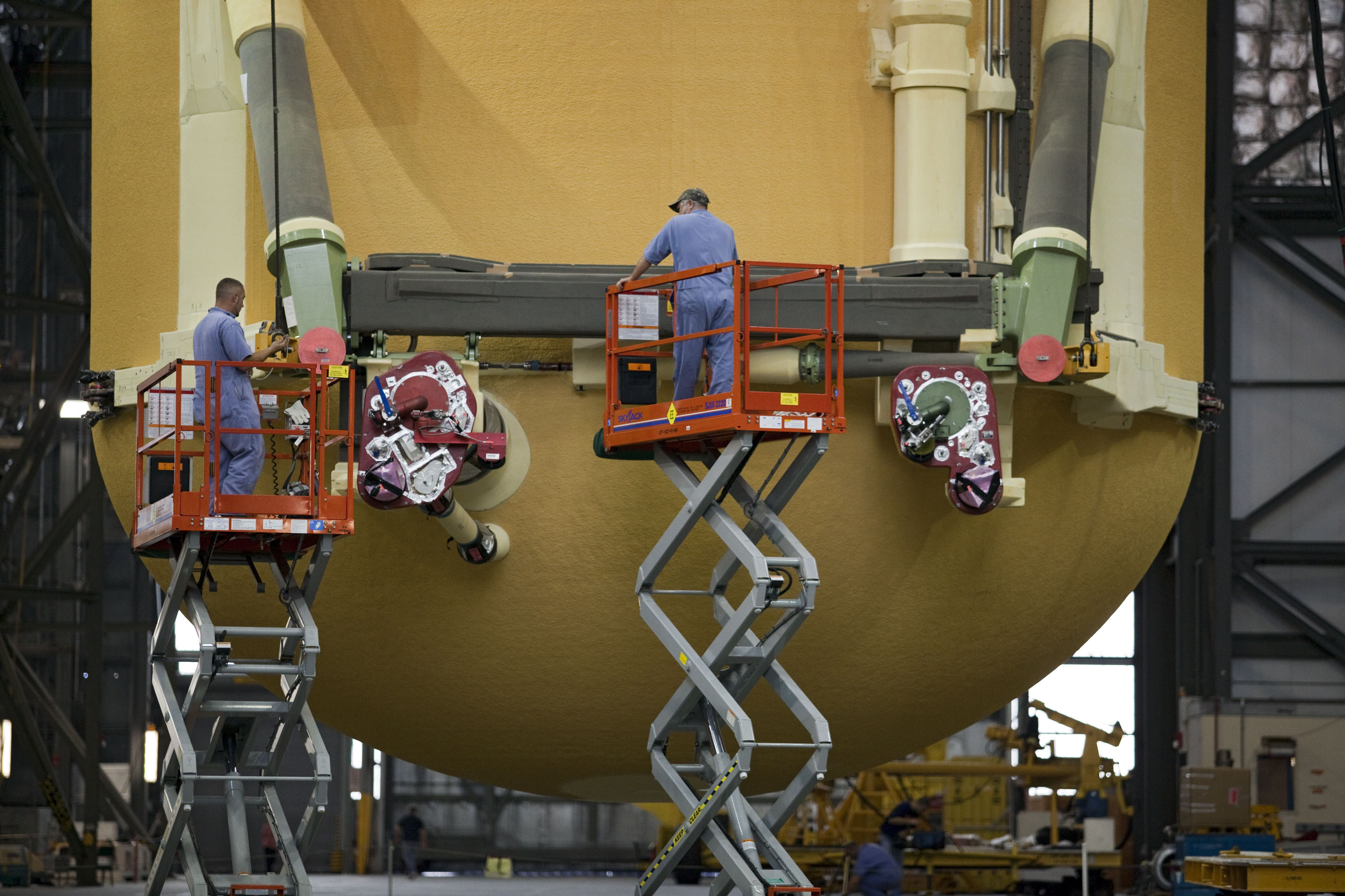 In the Vehicle Assembly Building at NASA's Kennedy Space Center in Florida, workers prepare External Tank-138, hanging vertically in the transfer aisle, for its lift onto a test cell where it will be checked out before launch. ET-138, the last newly manufactured tank, was originally designated to fly on space shuttle Endeavour's STS-134 mission to the International Space Station, but later reassigned to fly on space shuttle Atlantis' final mission, STS-135. For information, visit